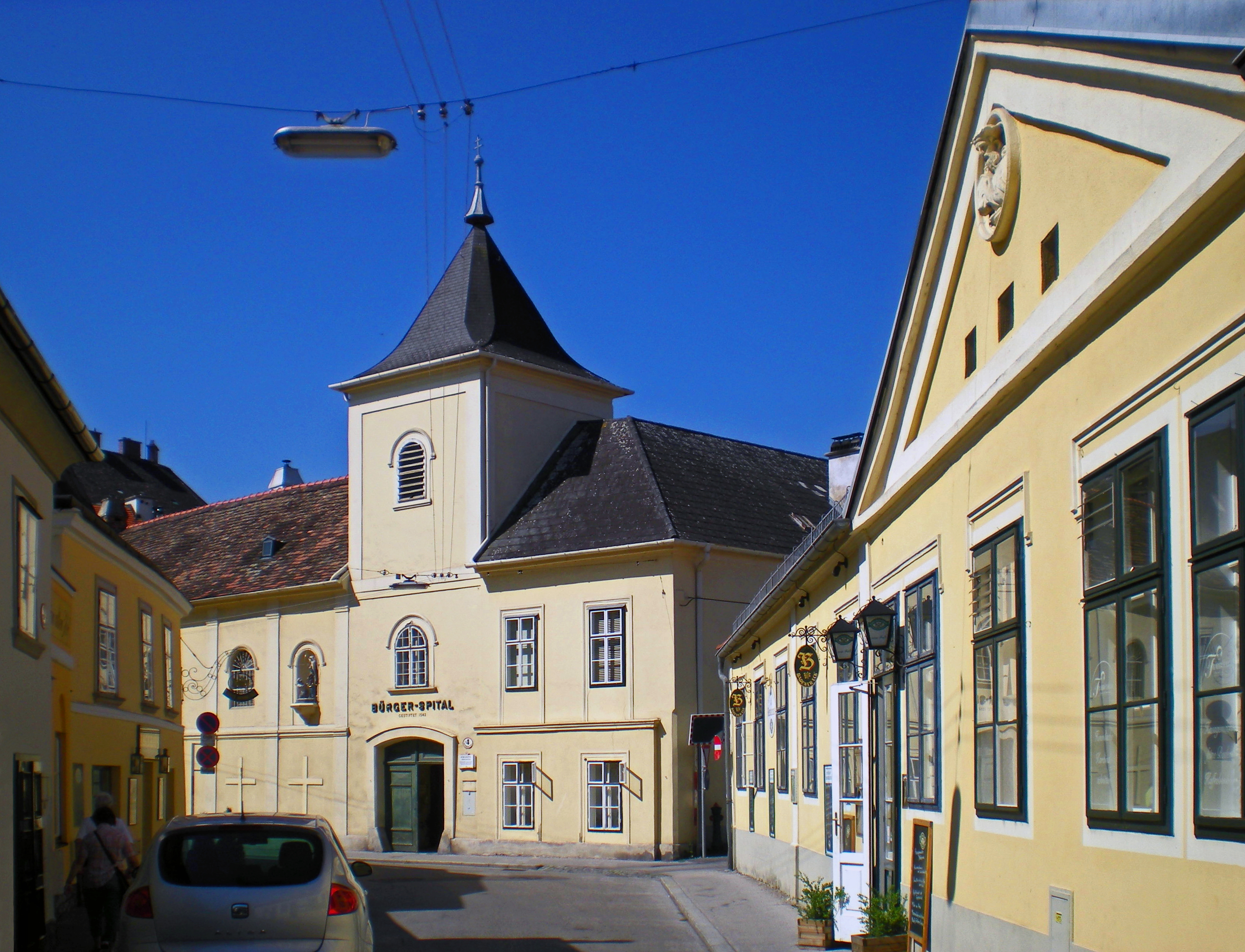 Bürgerspital, Baden bei Wien, Niederösterreich/Lower Austria